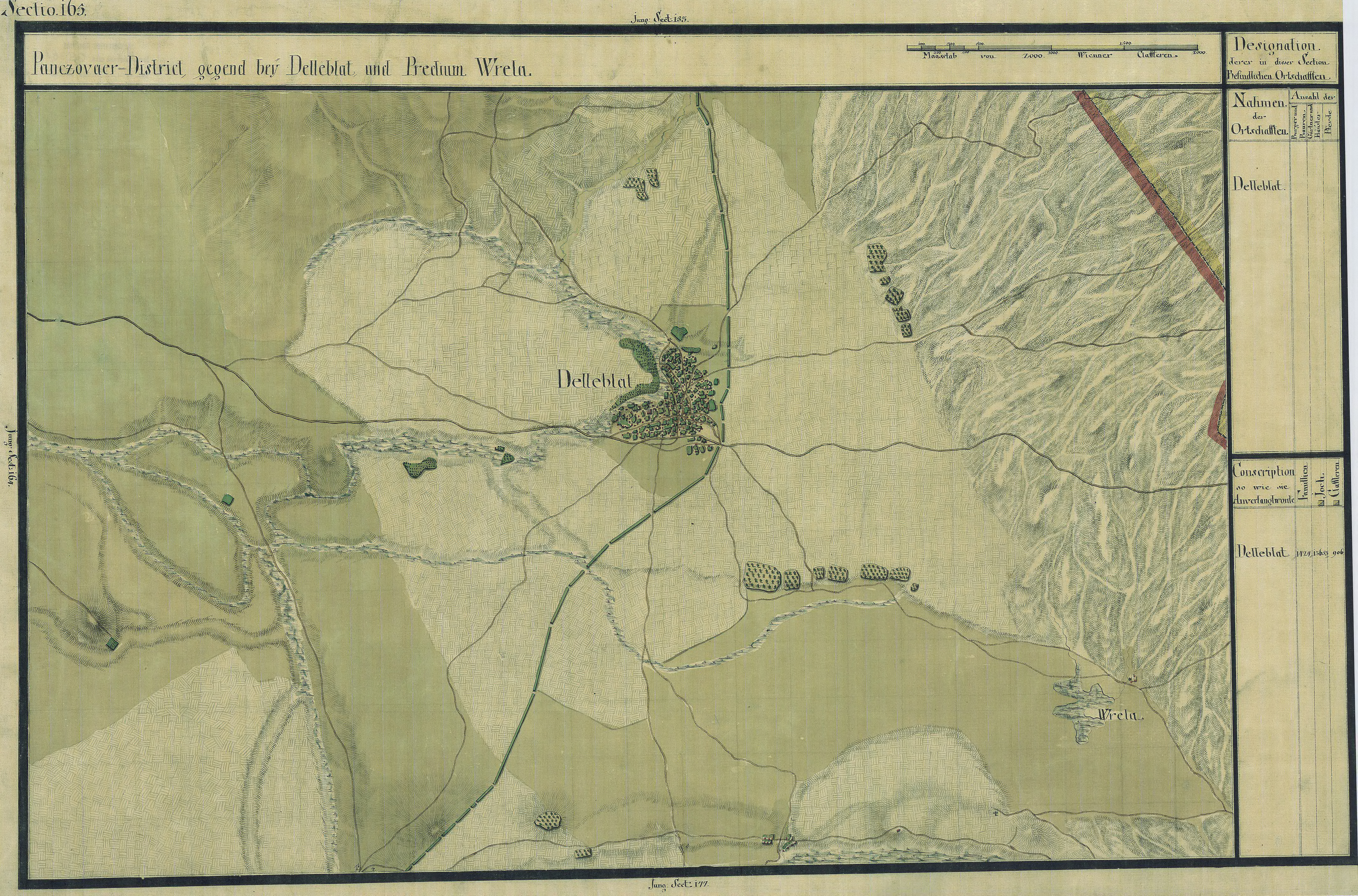 The Banat region in the cadastral maps: Josephinische Landesaufnahme, 1769-72. Josephinische Landaufnahme pg165